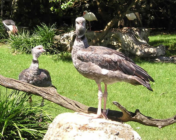 Crested or Southern Screamer (Chauna torquata).